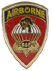 555th Parachute Infantry Regiment shoulder patch from [1]